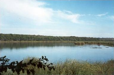 This is my own photo taken in Formosa